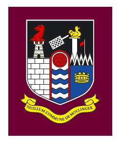 Mullingar Crest Logo Westmeath County Domain